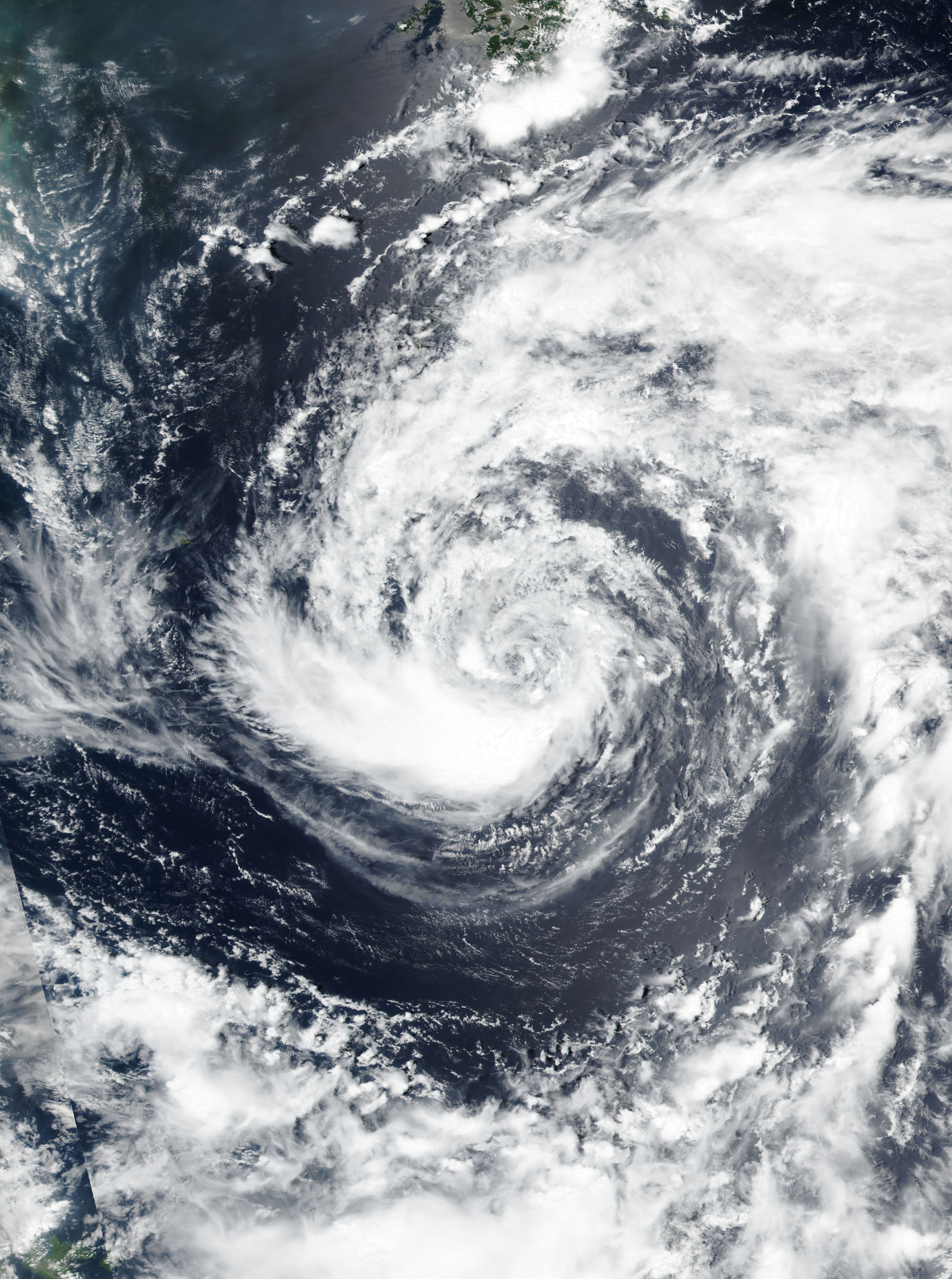 Severe Tropical Storm Ampil (12W) nearing the southern Japanese Islands on July 20, 2018